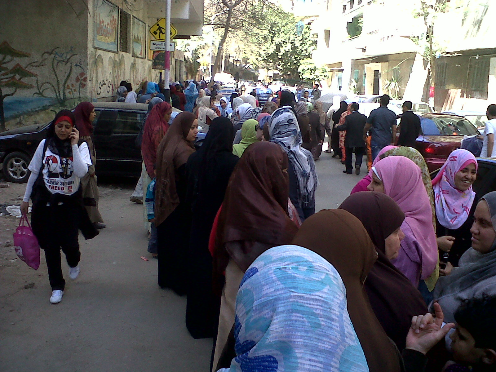 Women standing in line for the Egyptian referendum on consitutional amendments.